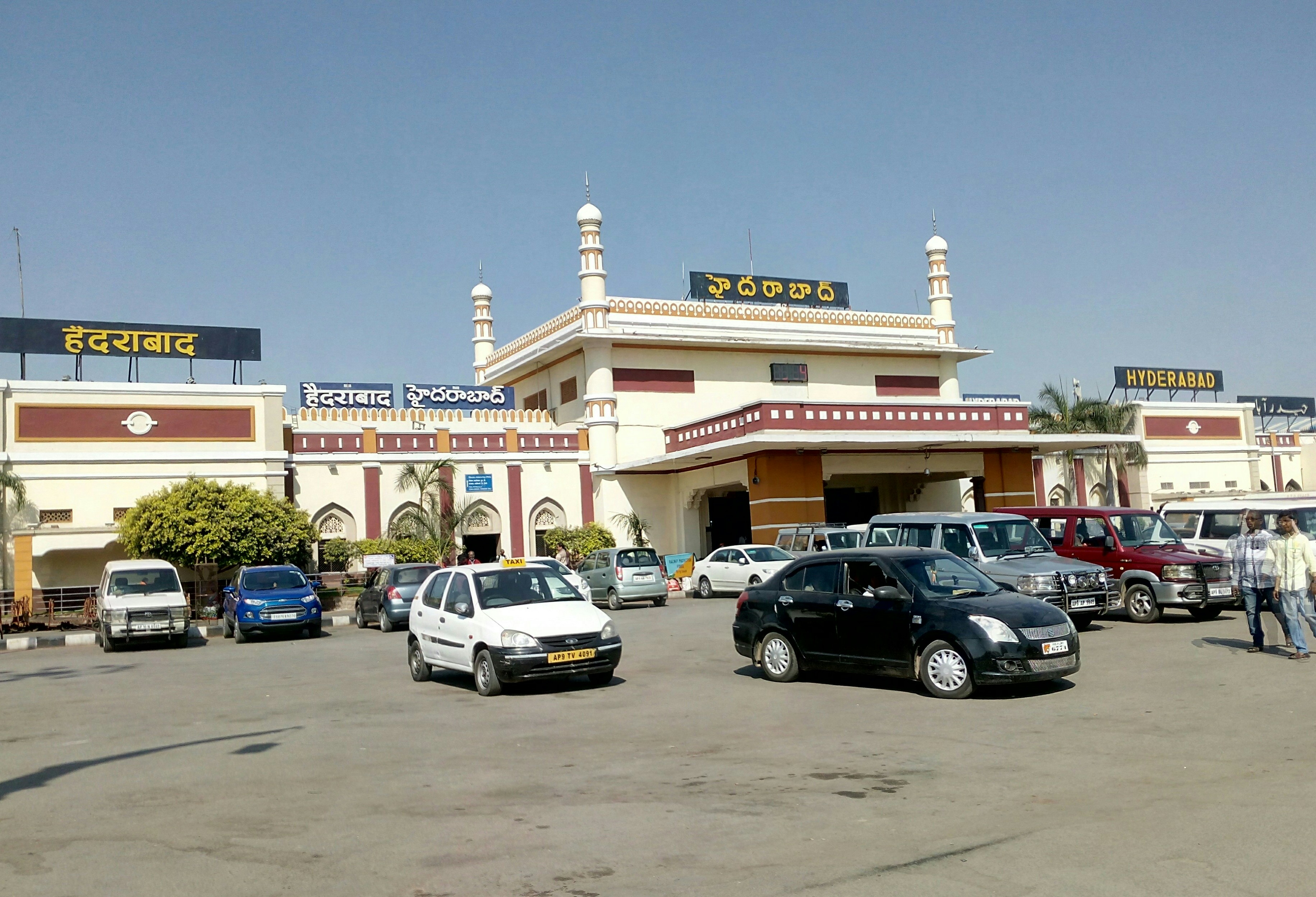 Hyb railway station building